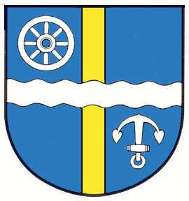 Coat of arms of Westerrönfeld Blasonierung: In Blau ein goldener Pfahl, gekreuzt und an der Kreuzungsstelle überdeckt mit einem silbernen Wellenbalken; im ersten Viertel ein silbernes Wagenrad mit acht Speichen, im vierten Viertel ein gestürzter silberner Anker.